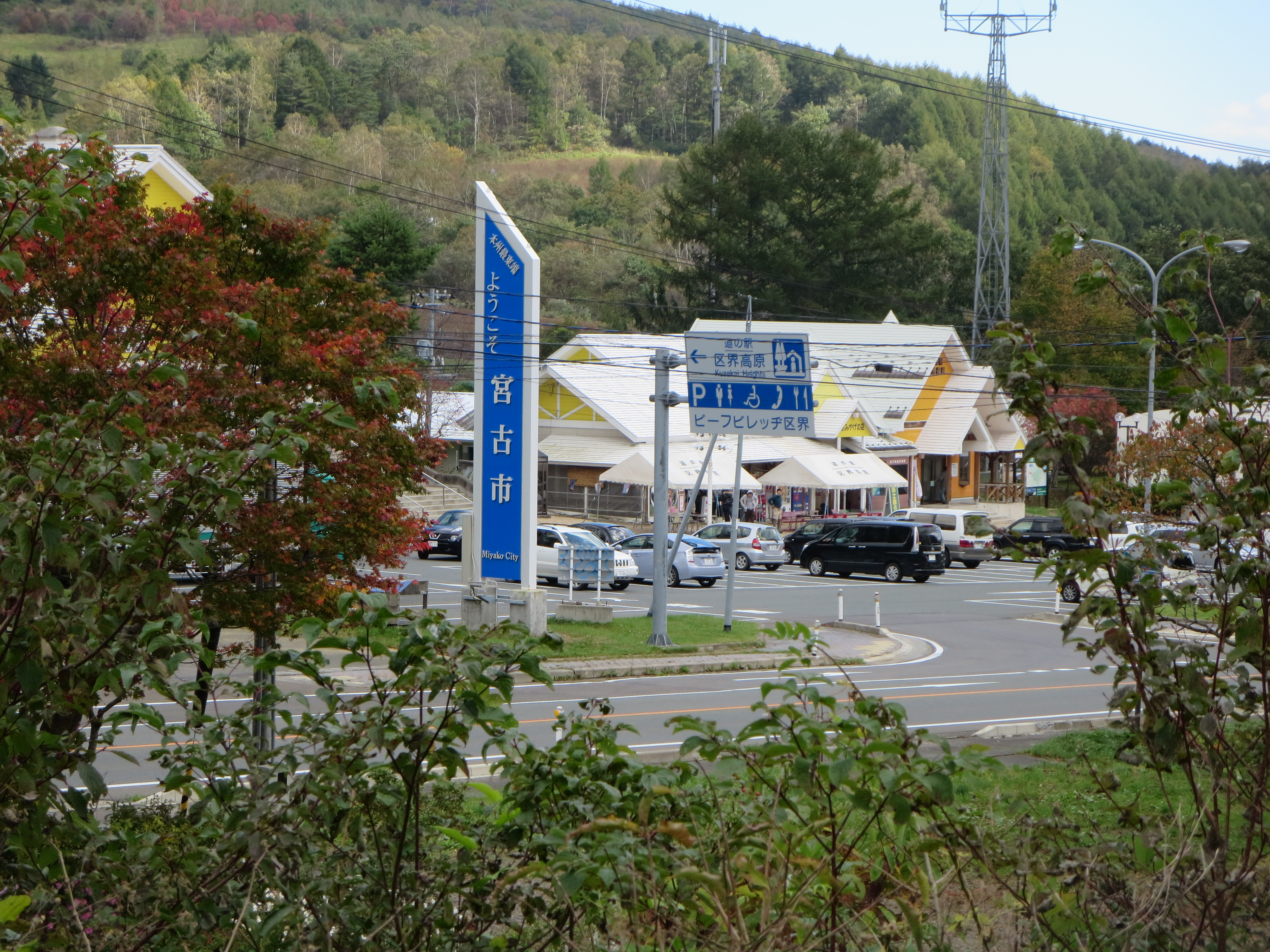 Michinoeki (Roadside station) Kuzakai Kogen as seen from Kuzakai Station